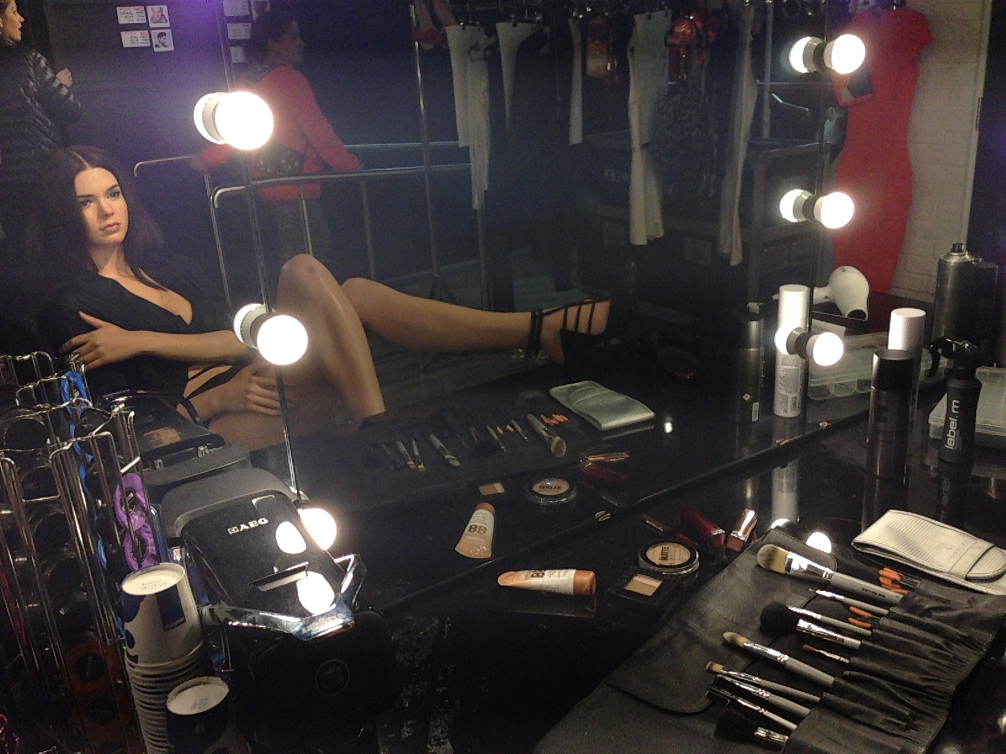 Kendall Jenner at Madame Tussauds London - November 1st, 2016